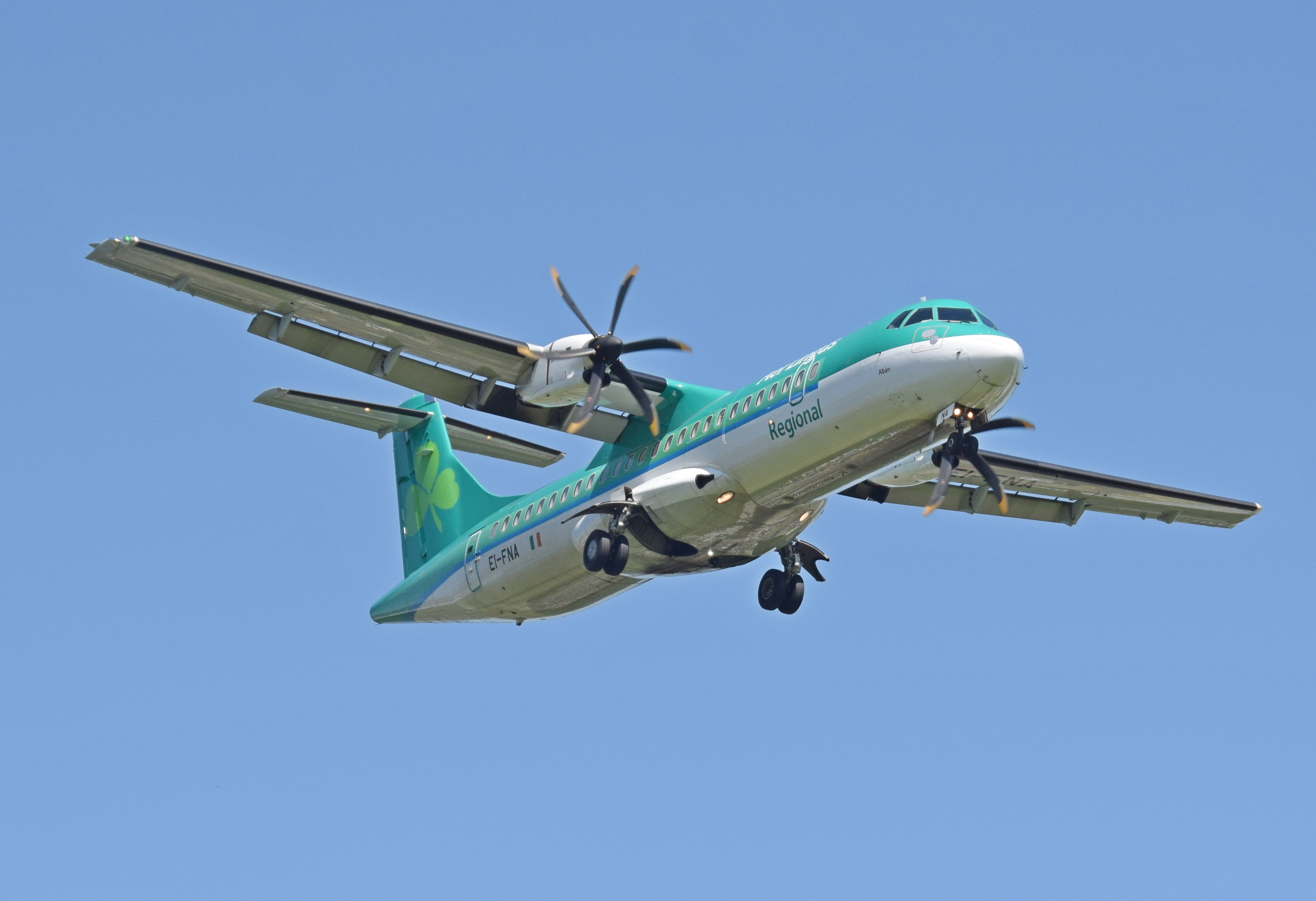 An ATR 72-600 (EI-FNA) of Aer Lingus Regional, operated by Stobart Air, arrives at Birmingham Airport, England. First flight of this aircraft was in 2016.